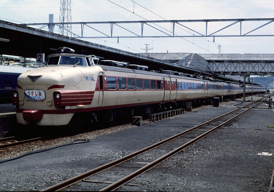 JNR 485 series EMU for the limited express Uzushio